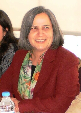 Gülten Kışanak, Mayor of Diyarbakır Metropolitan Municipality.